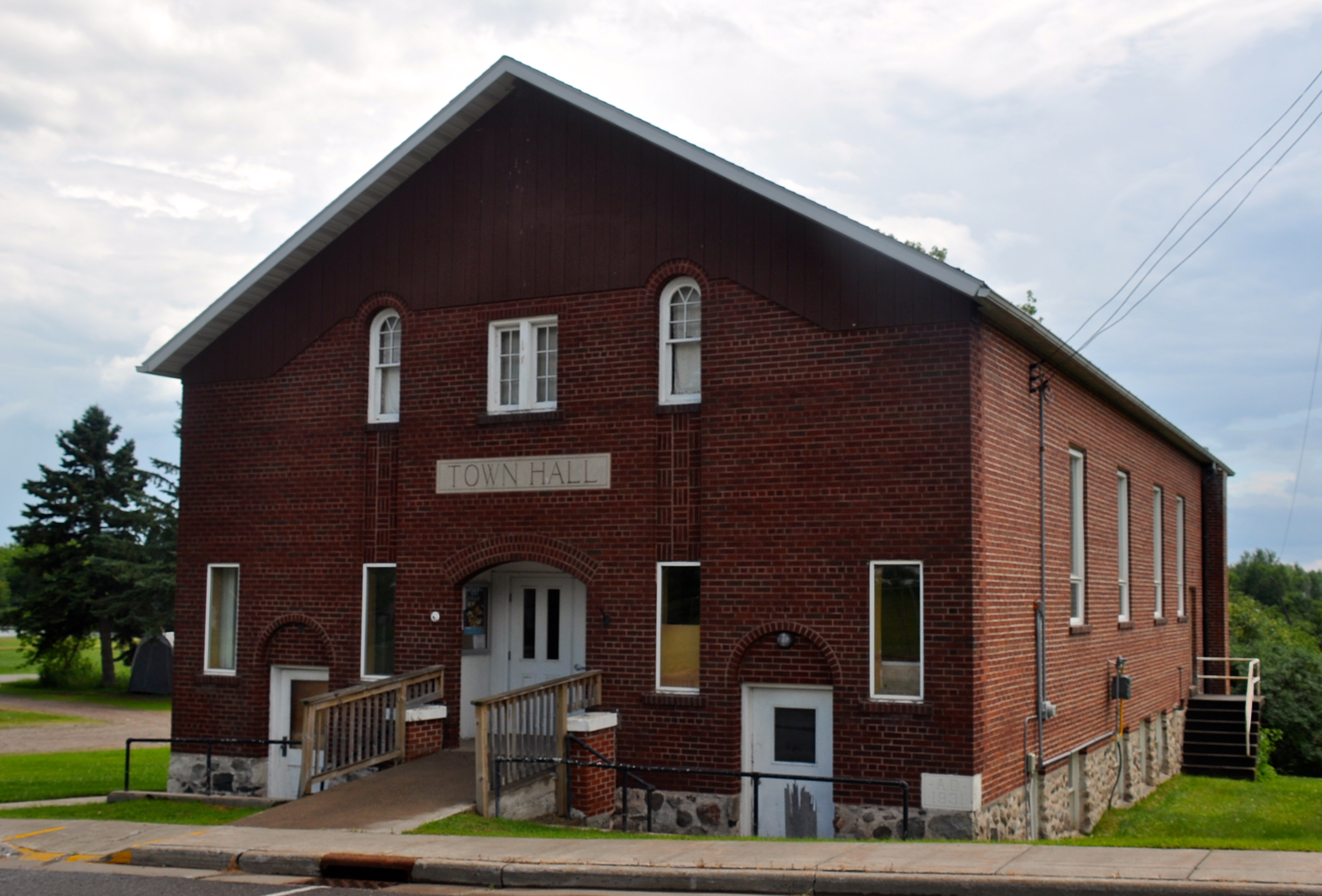 Ogema Town Hall located in Ogema, Price County, Wisconsin.